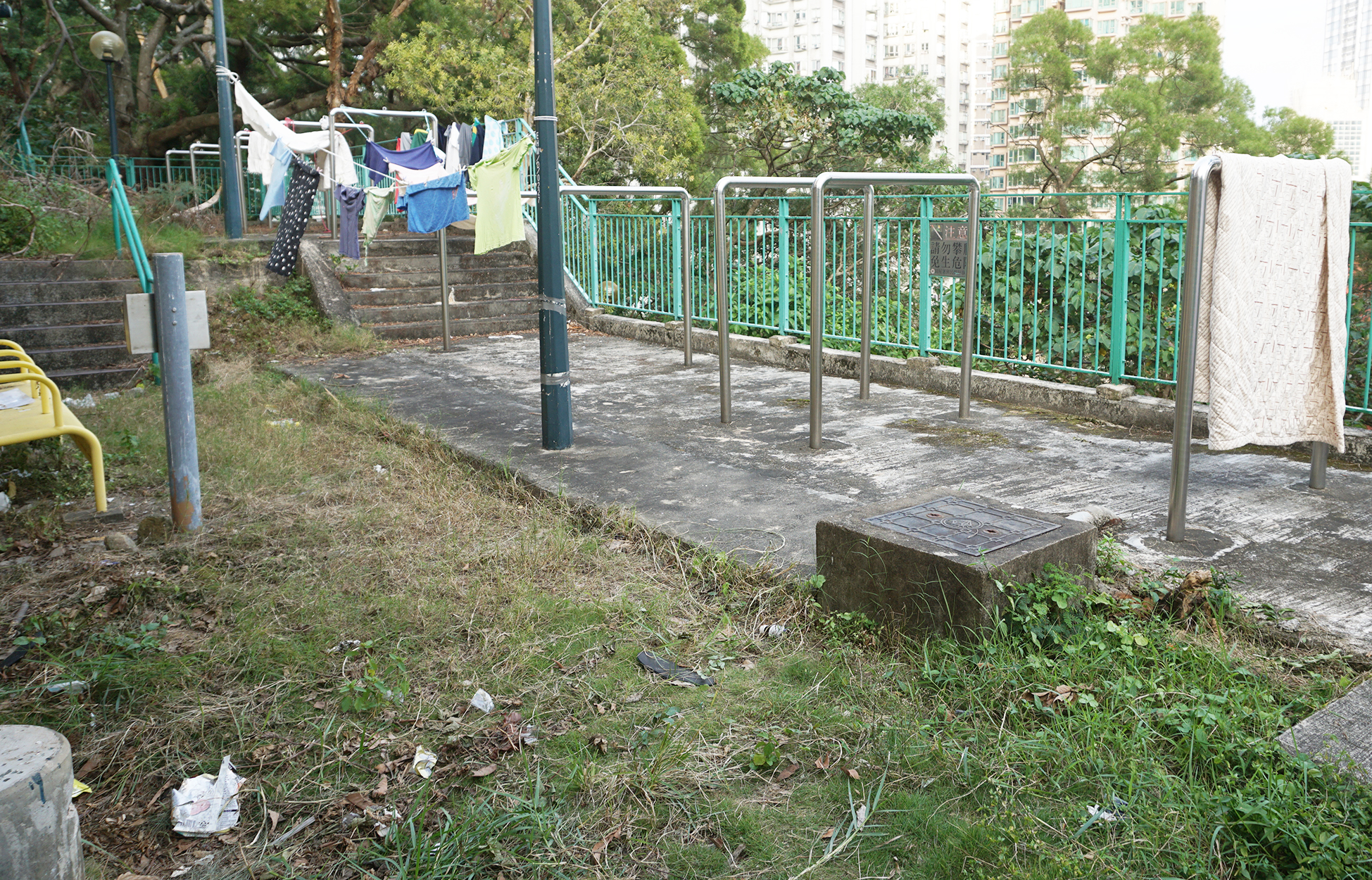 Hing Man Estate in Chai Wan, Hong Kong.